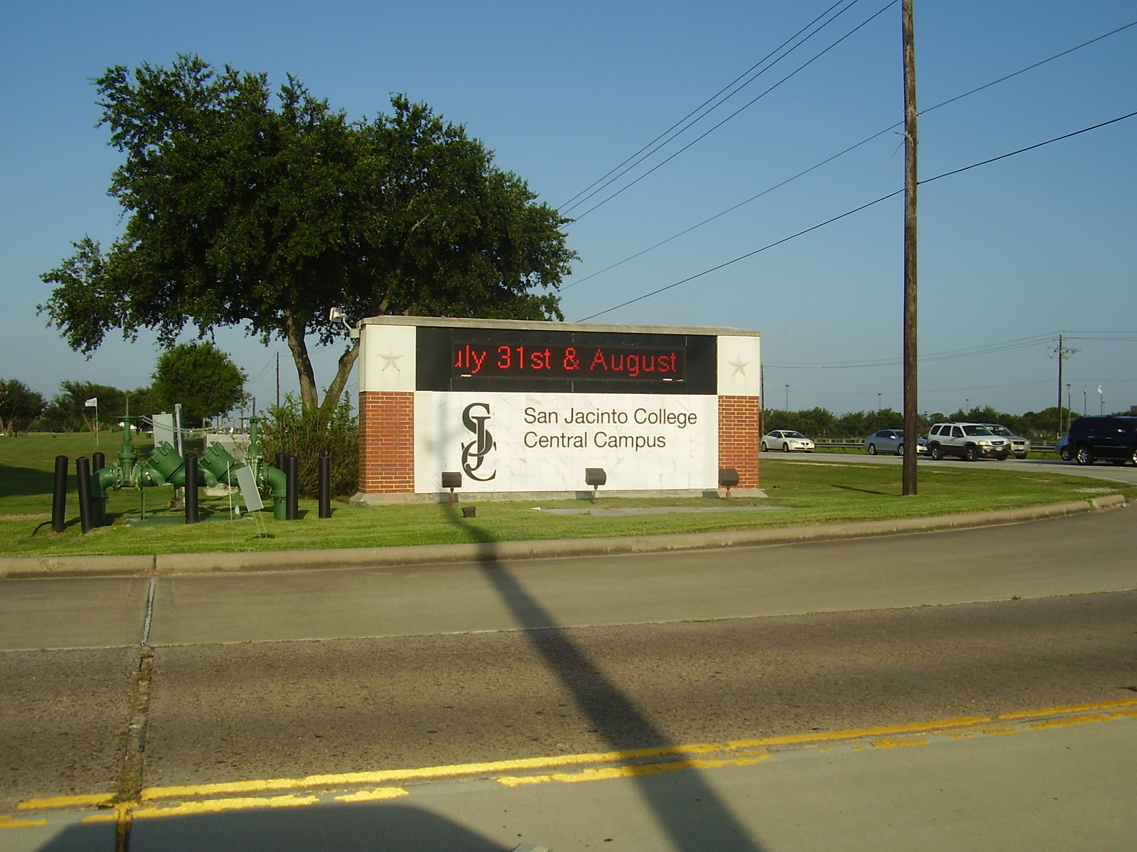 San Jacinto College Central Campus sign